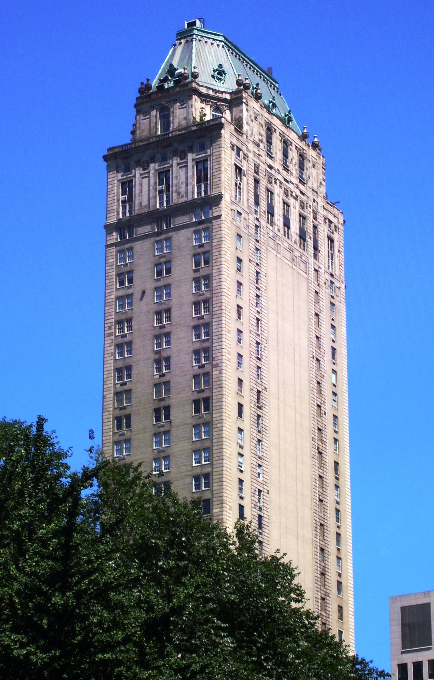 The Pierre Hotel at 795 Fifth Avenue at East 61st Street as seen from Central Park South.